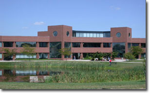 took picture for wiki